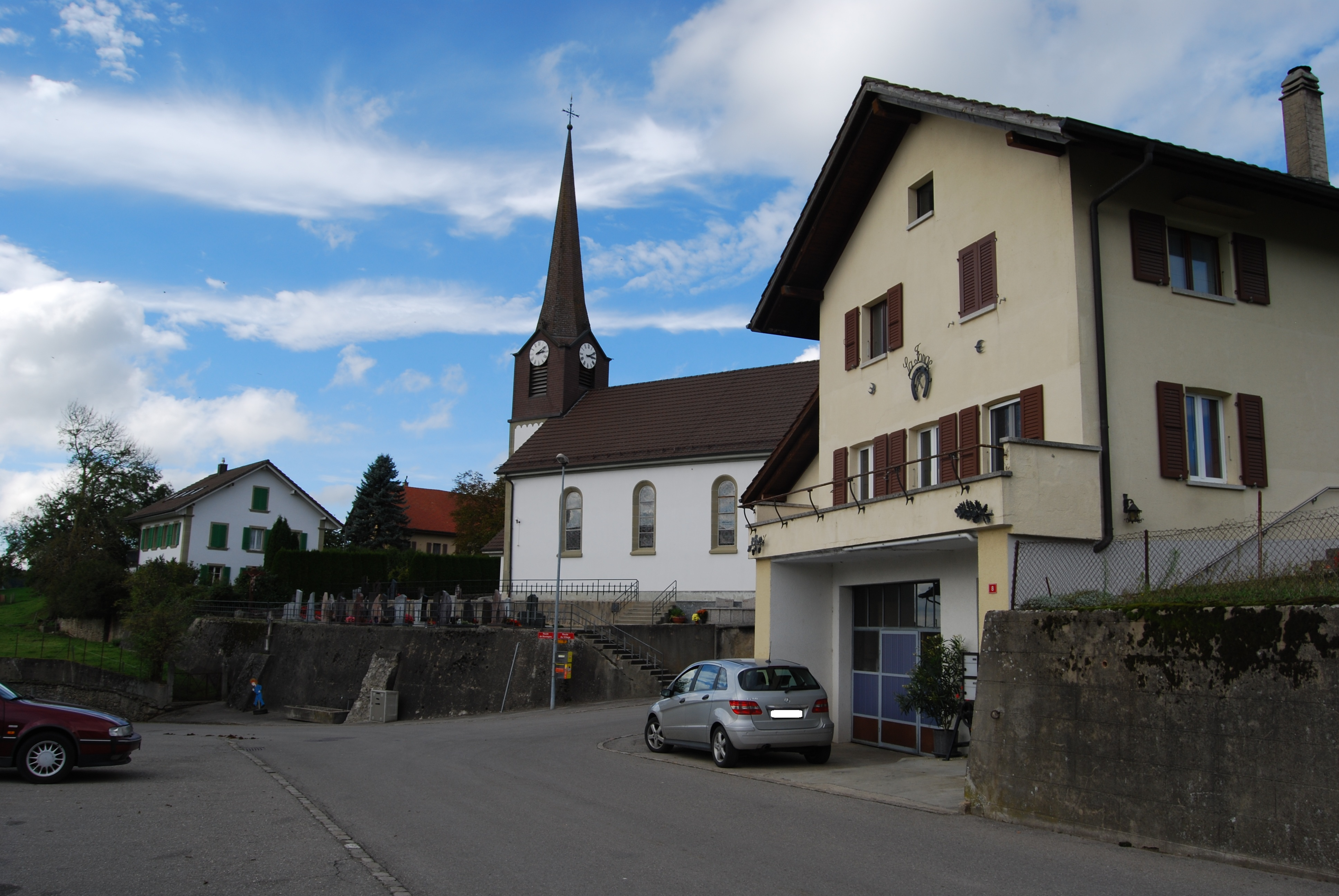 Catholic Church of Ponthaux, canton of Fribourg, Switzerland